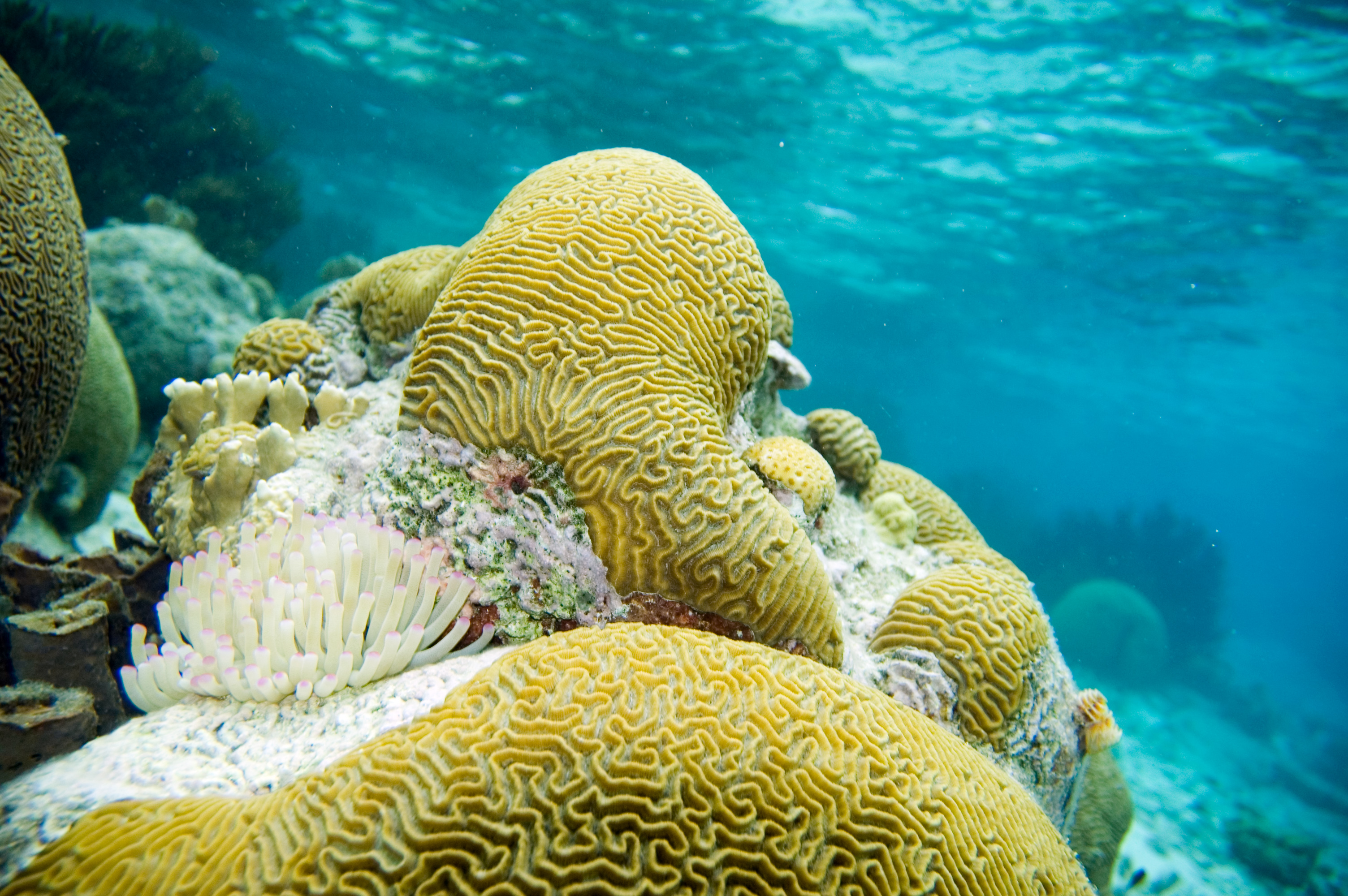 on symmetrical brain coral Diploria strigosa